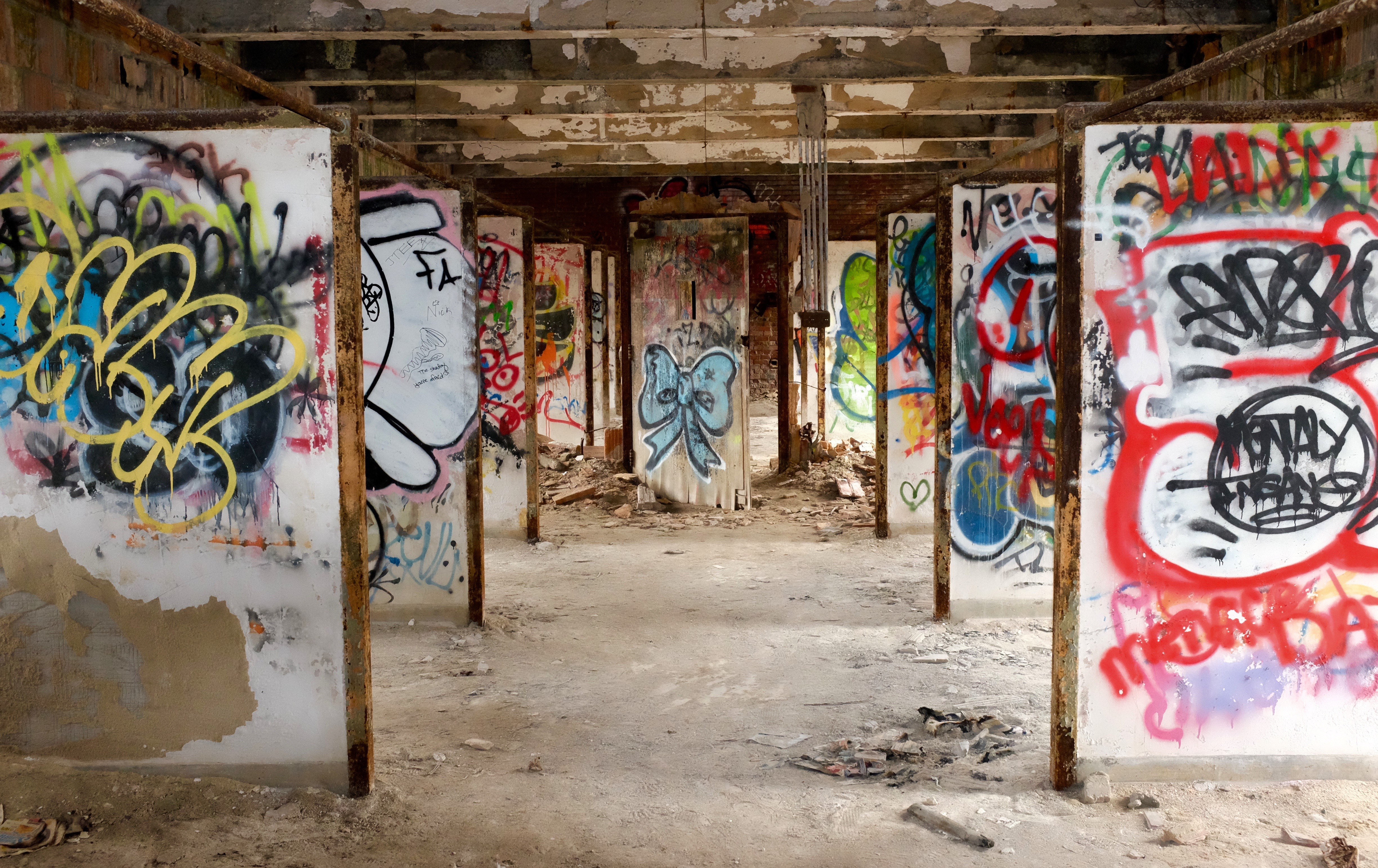 A room in one of the abandoned buildings of the New York City Colony Farm, covered in colorful graffiti.